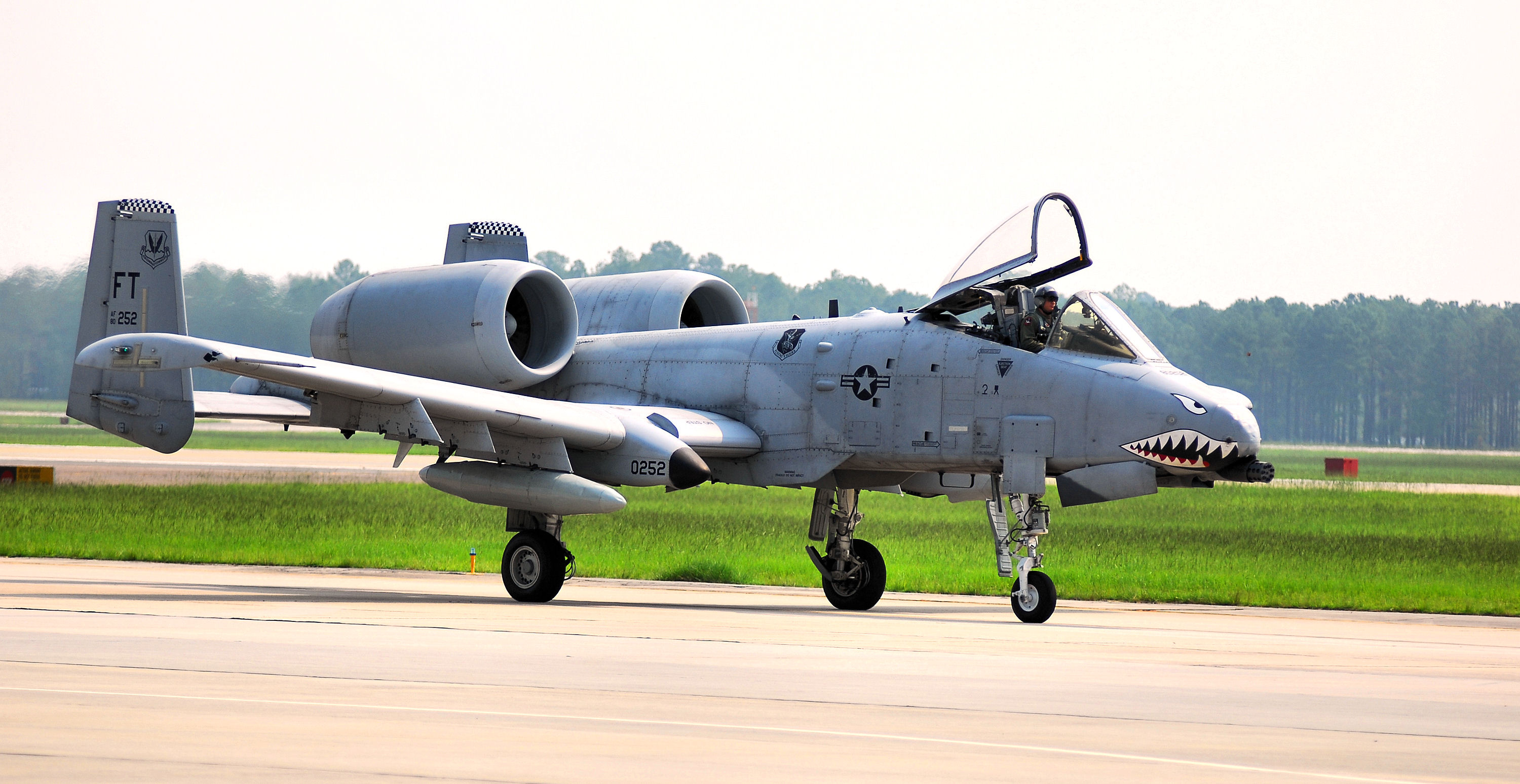 Lt. Col. Sam Milam, 75th Fighter Squadron commander, taxis his A-10C Thunderbolt II to its new home at Moody Air Force Base, Ga. Aug. 7. This aircraft is the first of approximately 50 upgraded A-10Cs moving to Moody as a part of a base realignment.